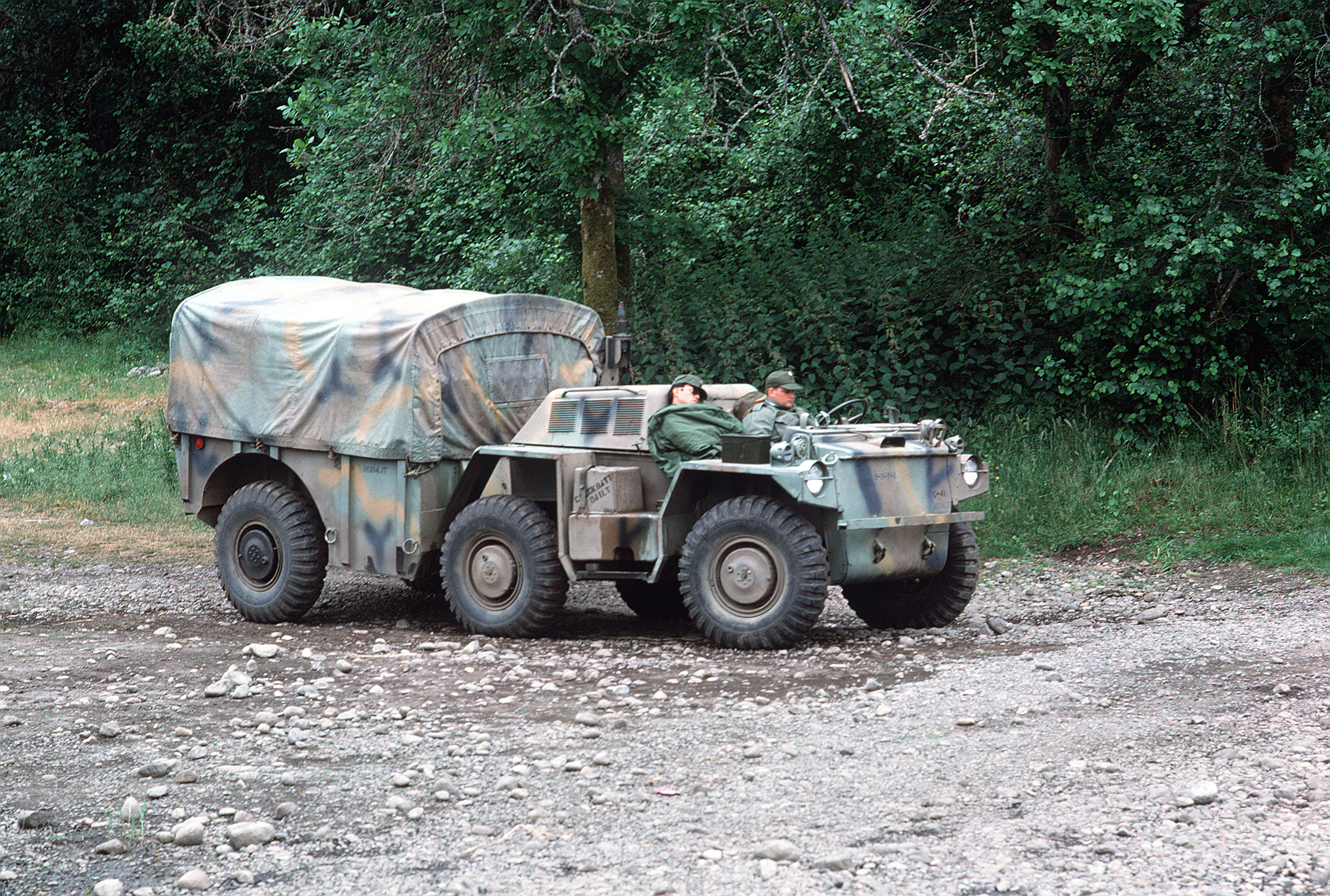 A US M561 1 1/4-ton truck.